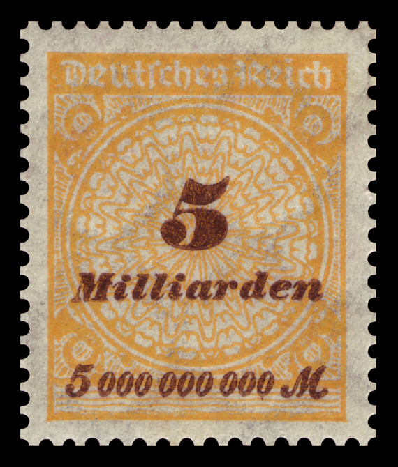 stamp series numbers in circle Ausgabepreis: 5 Milliarden Mark Michel-Katalog-Nr: 327A (Deutsches Reich)